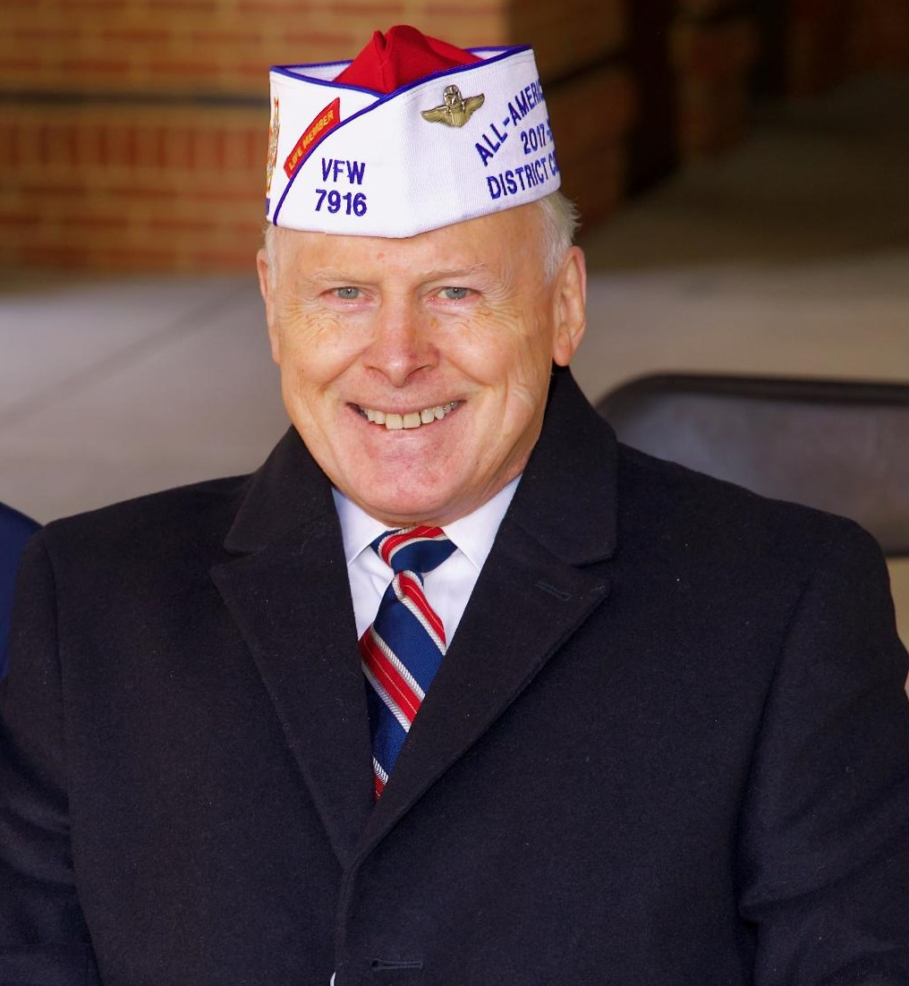 Veteran of Foreign Wars (VFW) "All American" Colonel Charles P. Wilson II (USAF Ret.) participates in the Veterans Day Ceremony at Quantico National Cemetery in Virginia.